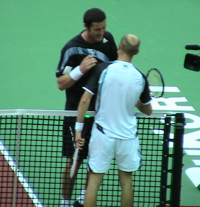 Marat Safin and Nikolay Davydenko after their 1st round match at 2009 Kremlin Cup in Moscow. Safin won 46 64 62